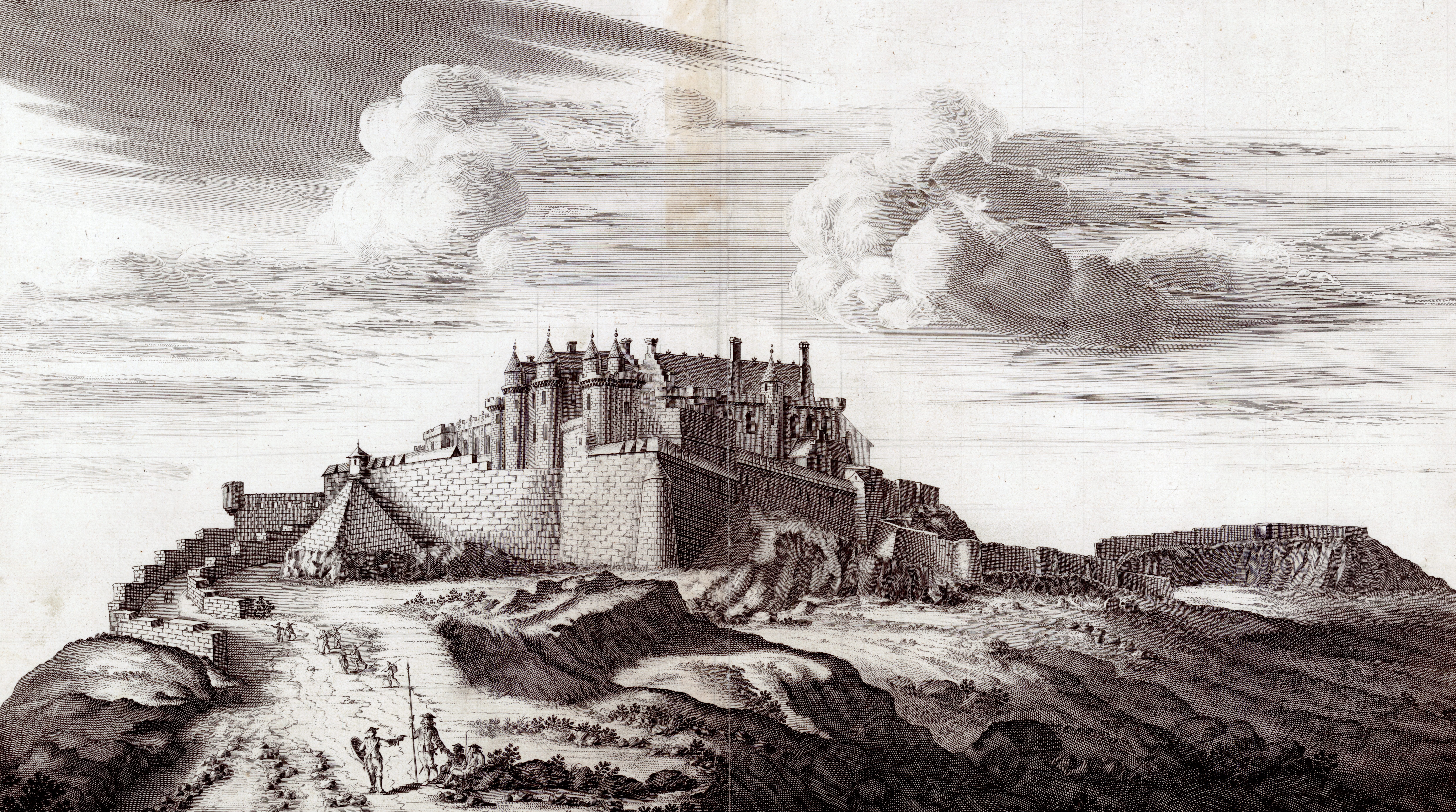 "The Prospect of their Ma'ties Castle of Sterling", engraving by John Slezer. Stirling Castle, Scotland, from the south-east.